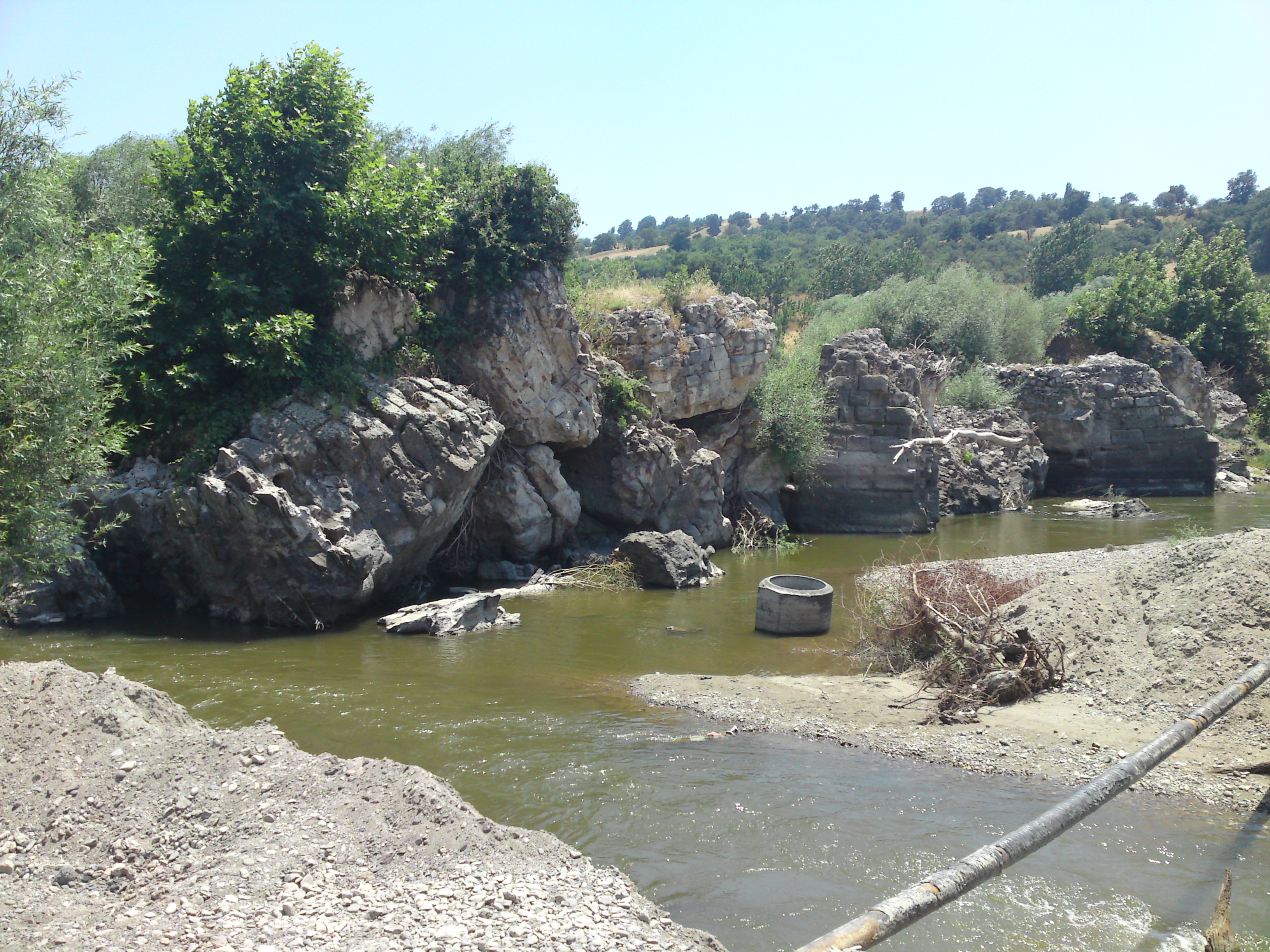 The ruined Roman bridge over the Makestos at Balikesir, Mysia, Turkey